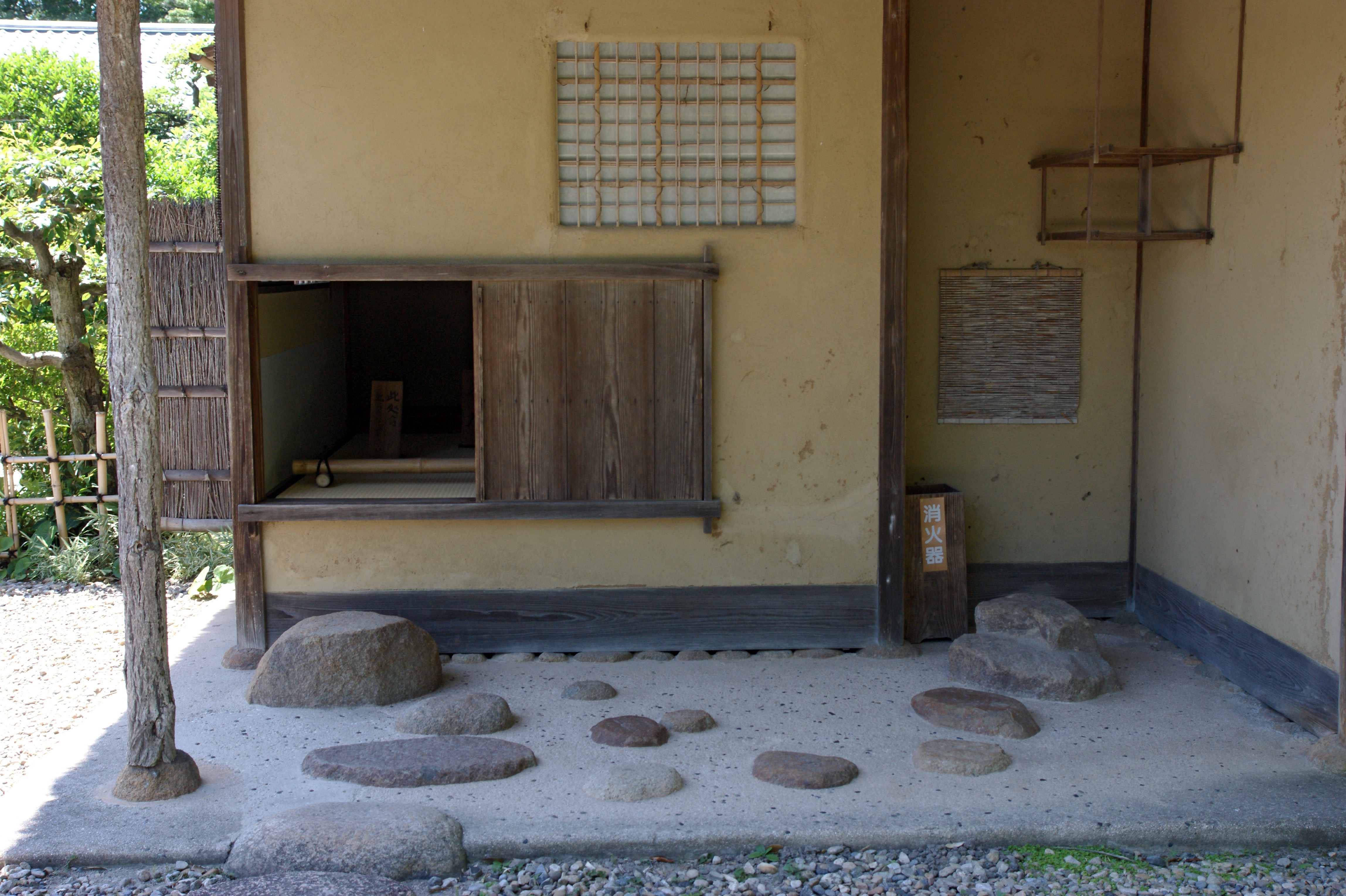 Meimeian in Matsue, Shimane prefecture, Japan